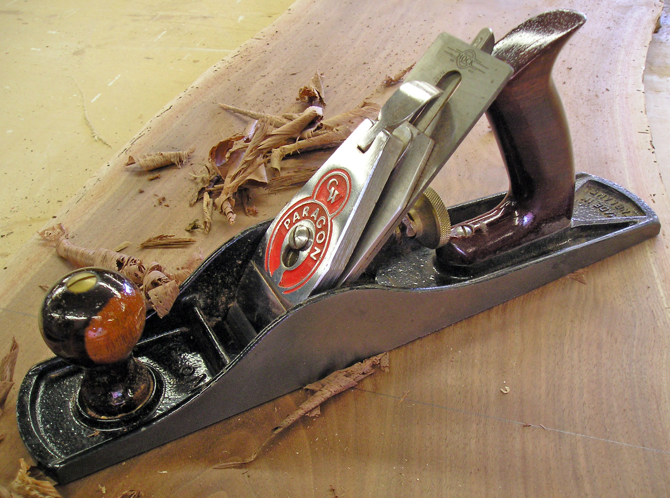 Bailey type No. 5 Jack Plane